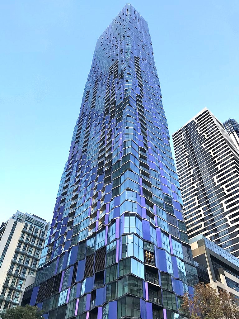 An edited version (slight saturation change, rm building in top corner) of Light House Melbourne, topped out in May 2017.jpg